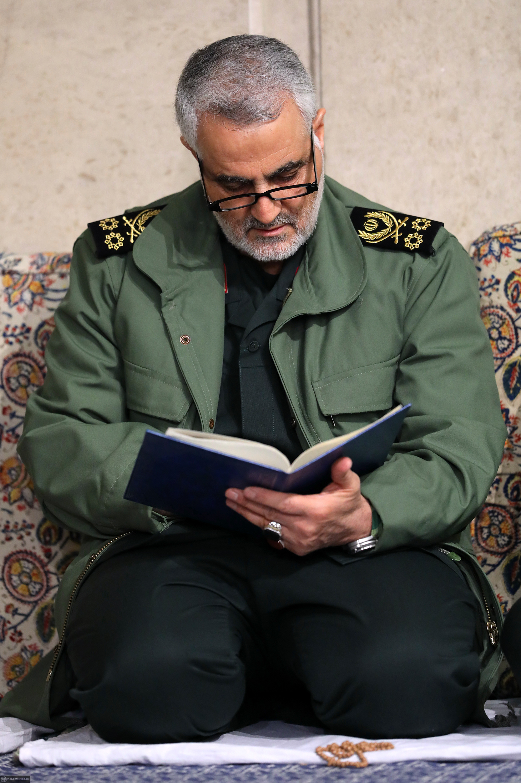 Qasem Soleimani at the memorial ceremony of Ayatollah Akbar Hashemi Rafsanjani, hosted by Supreme Leader Ali Khamenei